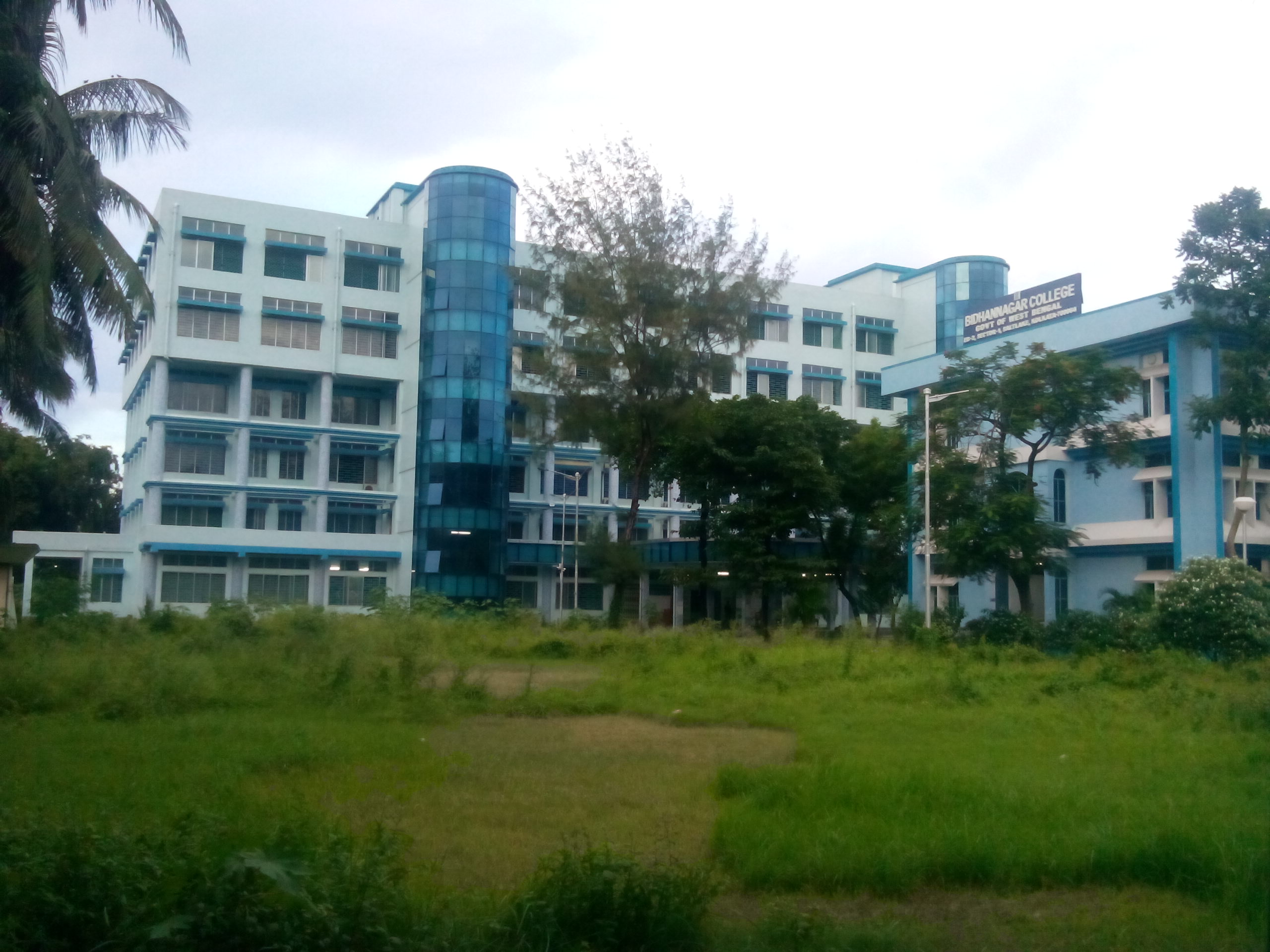 New building of bidhannagar college in bidhannagar